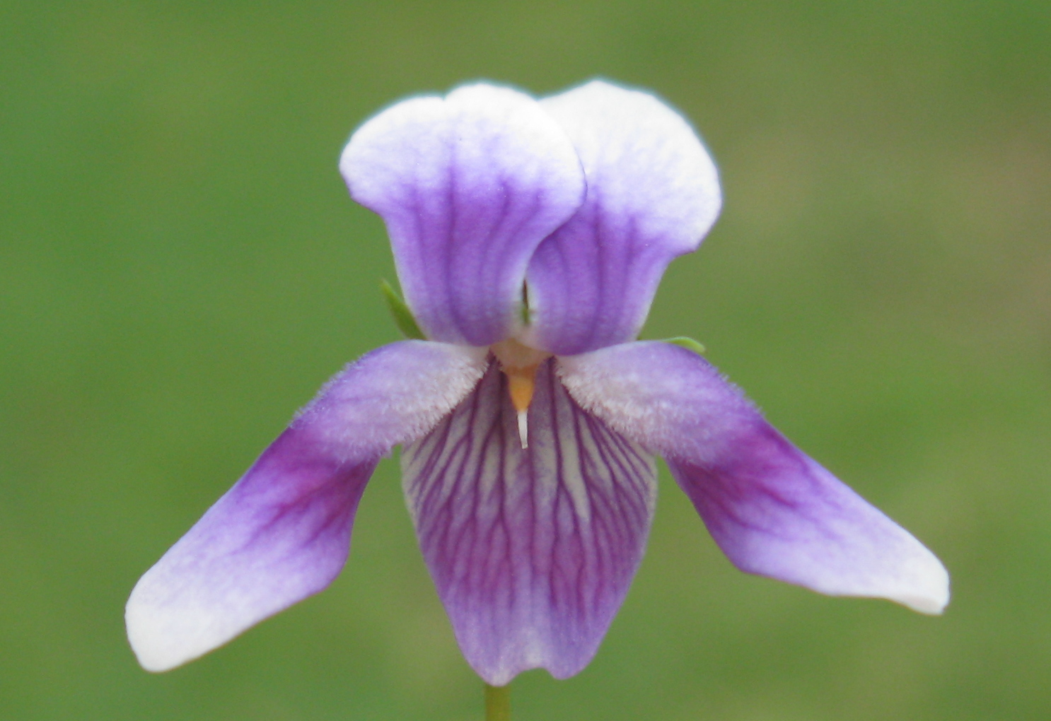 Native, warm-season, perennial, low-growing, mat-forming herb. Leaves form rosettes where the stolons root at the nodes. Leaves are broad kidney-shaped (forming a deep slit at the base), bluntly toothed and 30-45 mm wide. Flowers are violet towards the centre, grading to white at the margins. Flowering is from spring to autumn. Found in moist (often shady) places, such as swamps, woodlands and forests in near coastal situations. Native biodiversity. This form of native violet is commonly cultivated, but has only recently been recognised as a separate species to Ivy-leaved Violet (Viola hederacea). Of little importance to livestock grazing as it is very low growing. Tolerant of disturbance and light to moderate stocking rates.